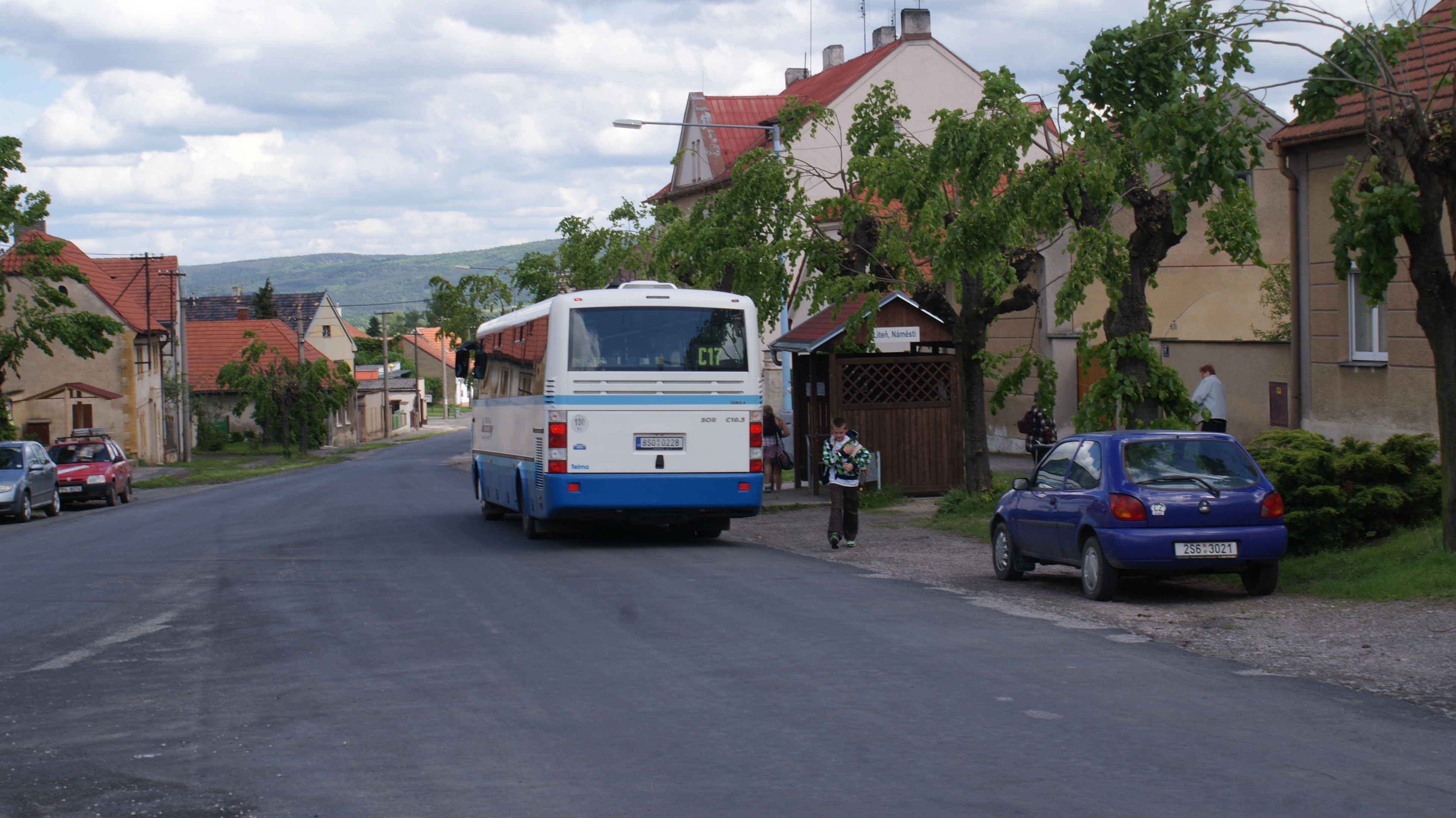 Bus stop Náměstí in Liteň